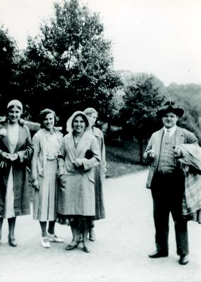 Dörge 1930